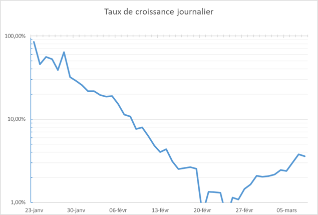 Daily growth rate of CoViD19 invection.